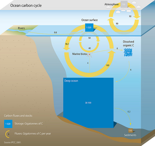 Ocean carbon cycle from GRID-Arendal